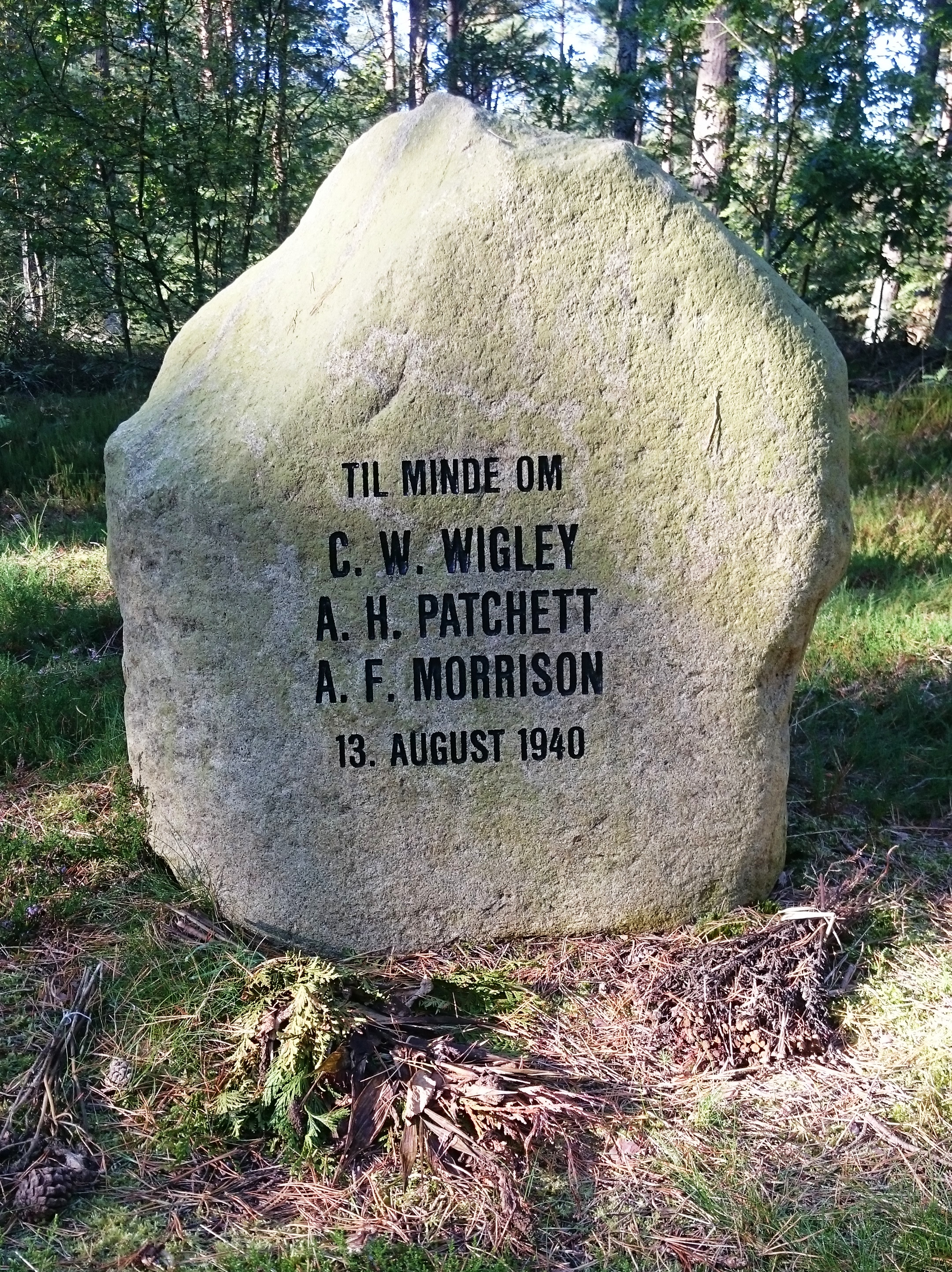 Memorial to airmen, fallen in air battle over Vadum, Aalborg Airbase, Aug. 13 1940